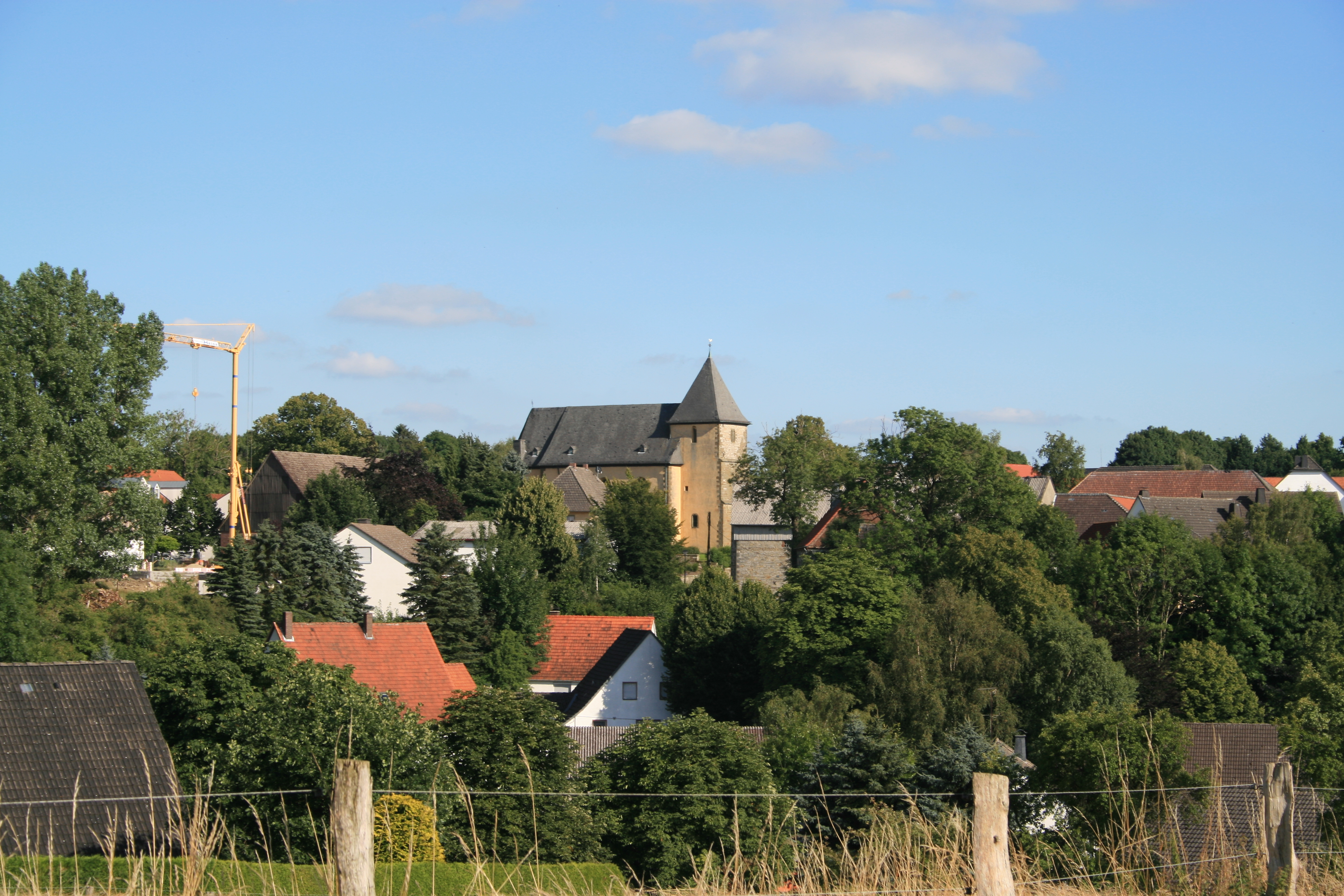 Meiste